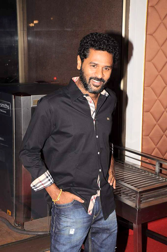 Prabhu Dheva at Success bash of 'Rowdy Rathore'